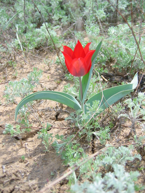 I took this picture of a wild tulip in the steppe of Kazakhstan. The tulips there are plentiful and very bright. the contrast between the surrounding drabness of the steppe in early spring and the deep red of the tulip is startling. Carole a 18:16, 14 Sep 2004 (UTC)